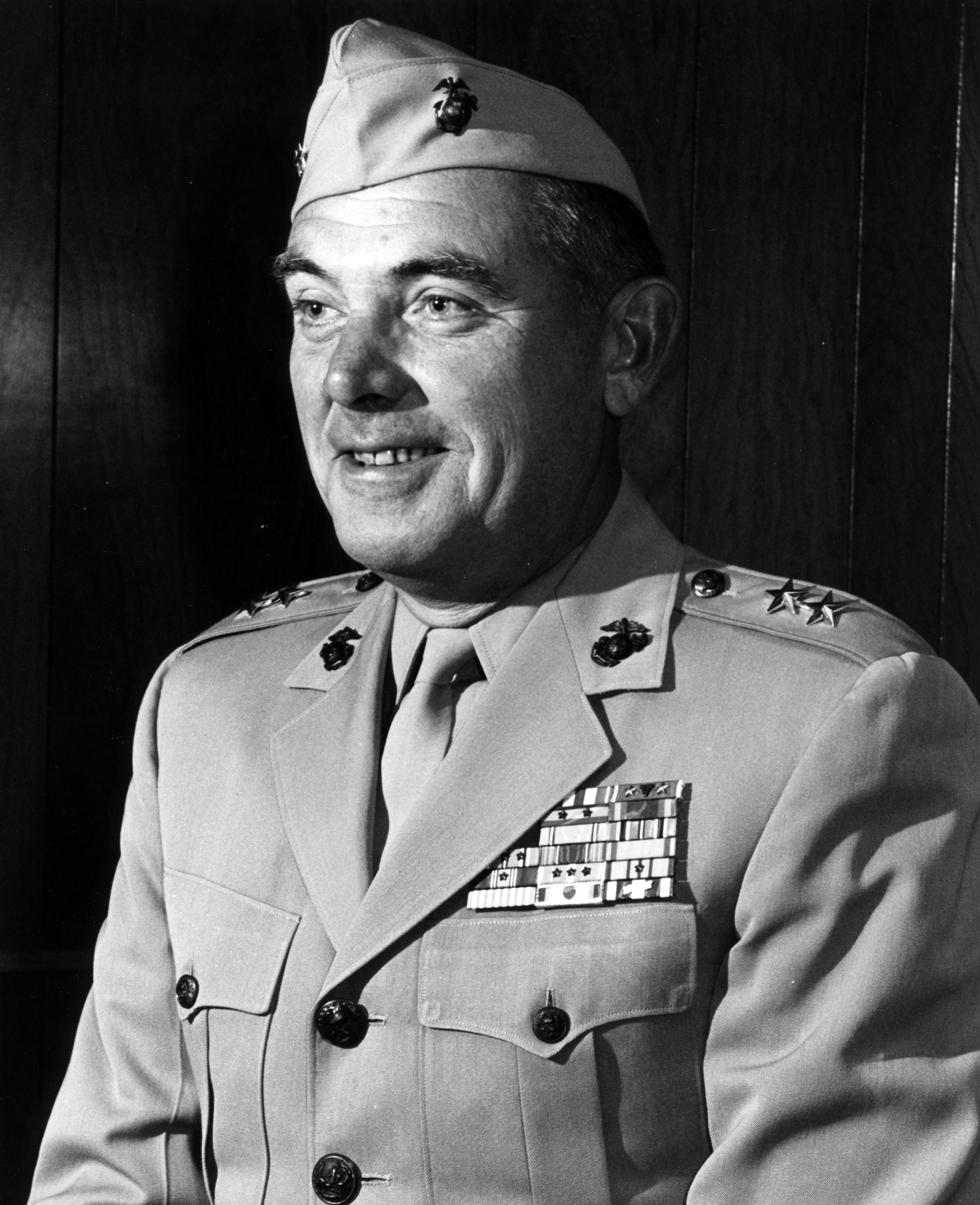 Edwin Bliss Wheeler (March 17, 1918 - October 14, 1985) was a highly decorated officer of the United States Marine Corps with the rank of Major General. He served with famous Marine Raiders during World War II and earned Silver Star for gallantry in action. Wheeler served two tours of duty in Vietnam, as commanding officer of 3rd Marine Regiment in 1964-1965 and later as commanding general of 1st Marine Division in 1969-1970.